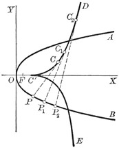 Evolute of a parabola.